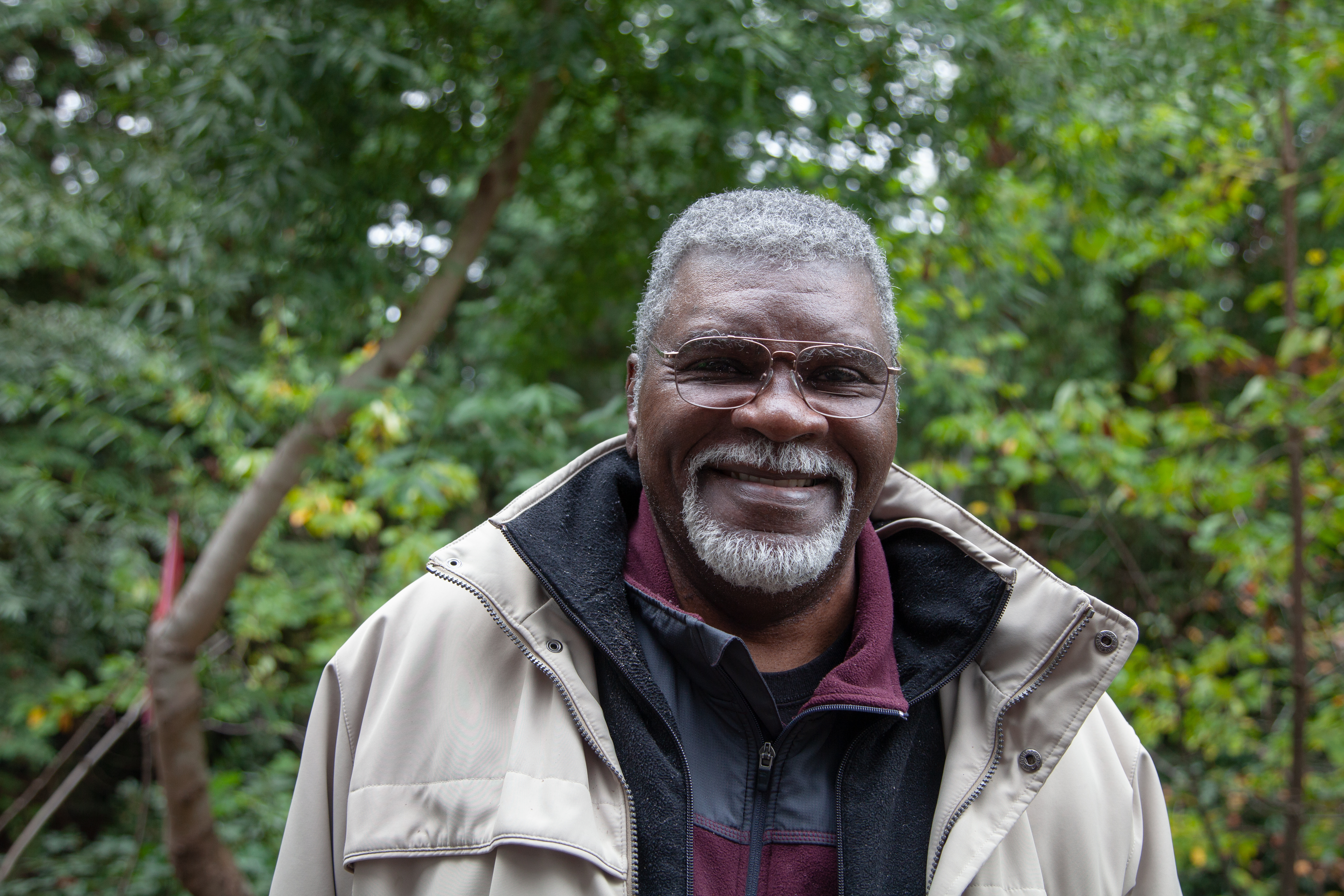 Portrait of Elbert "Big Man" Howard taken in 2012